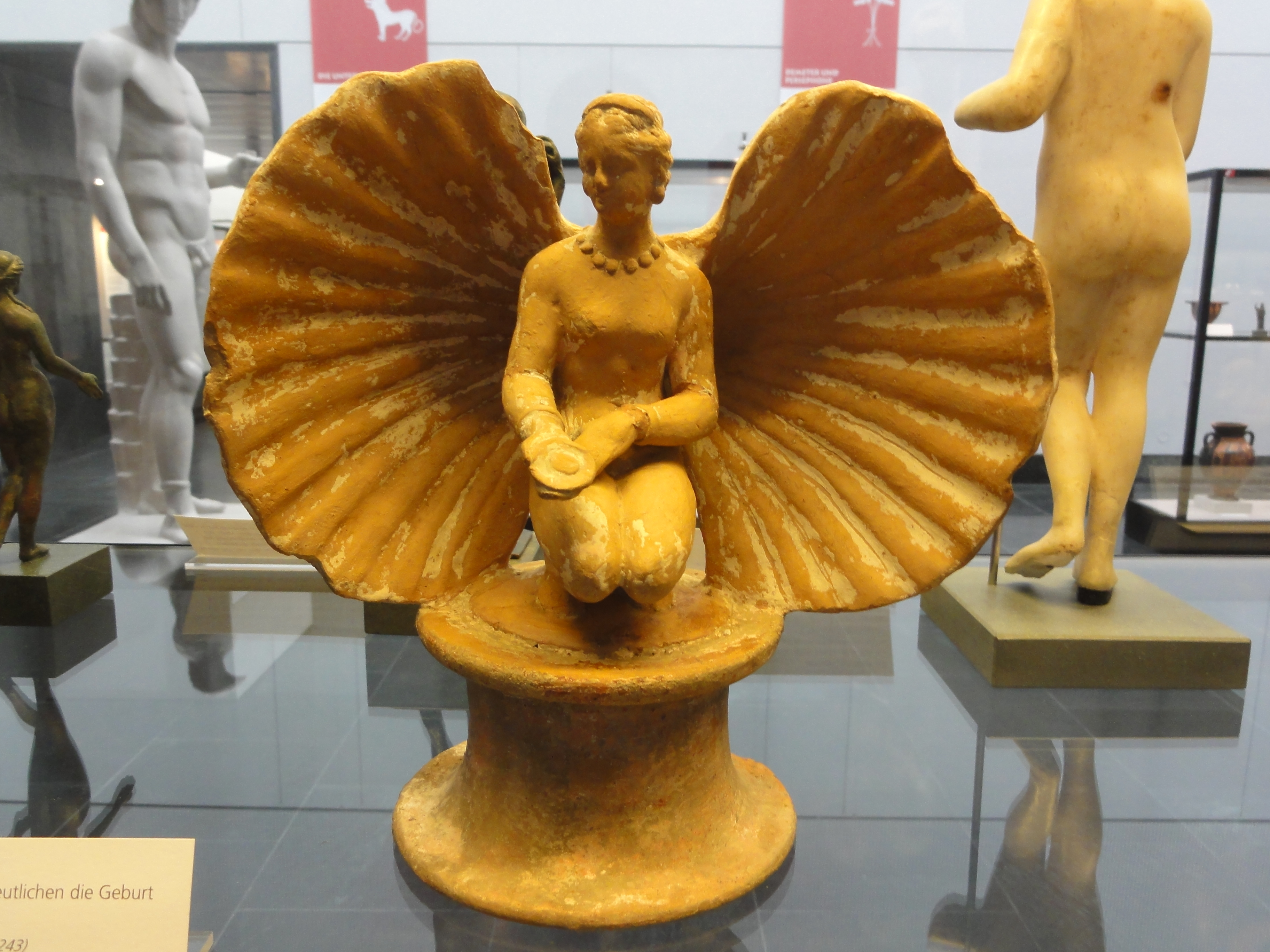 Munich Staatliche Antikensammlungen Native nameStaatliche AntikensammlungenLocationMunichCoordinates48° 08′ 42″ N, 11° 33′ 52.92″ E Established1848 Web page Authority control : Q707981 VIAF: 255683987 ULAN: 500267743 LCCN: n81002996 NLA: 36383826 GND: 4198941-7 WorldCat institution QS:P195,Q707981